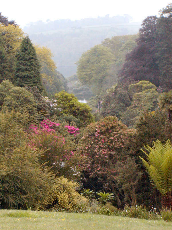 Trebah Garden, Cornwall